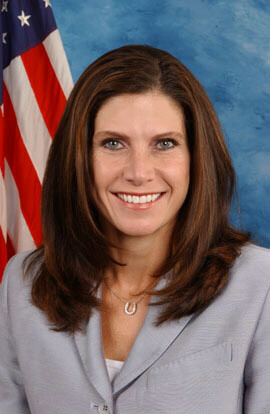 Mary Bono, member of the United States House of Representatives.